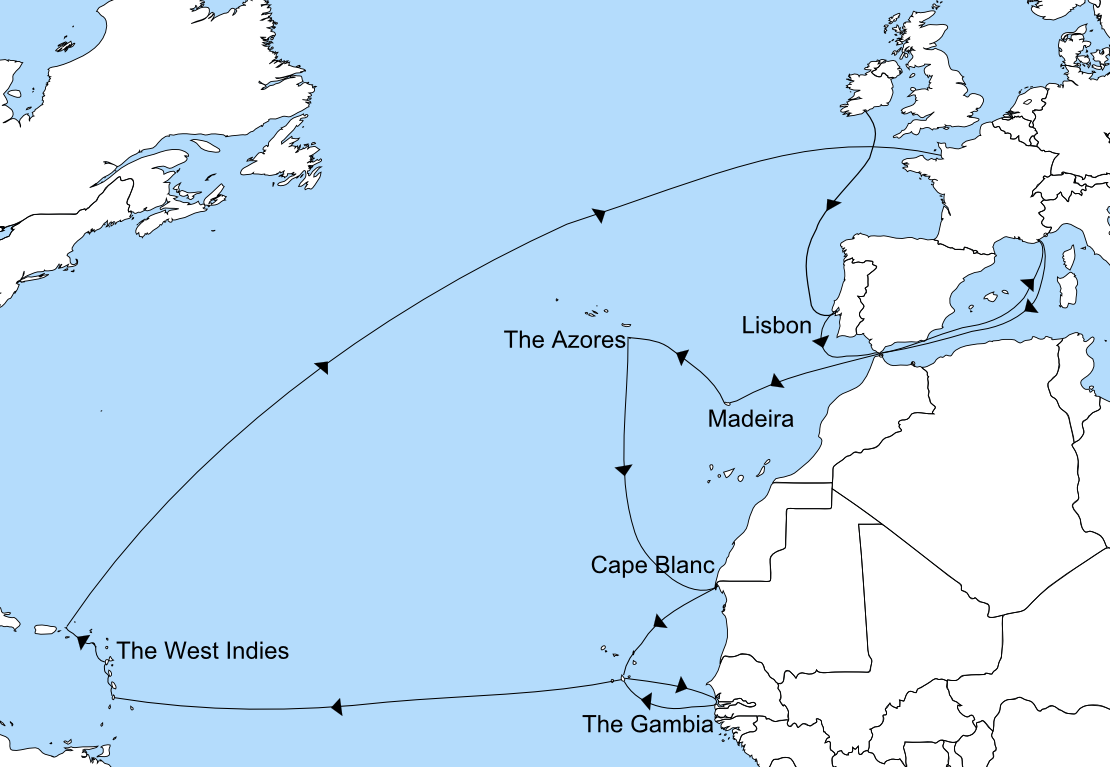 Prince Rupert's post-war maritime campaign.